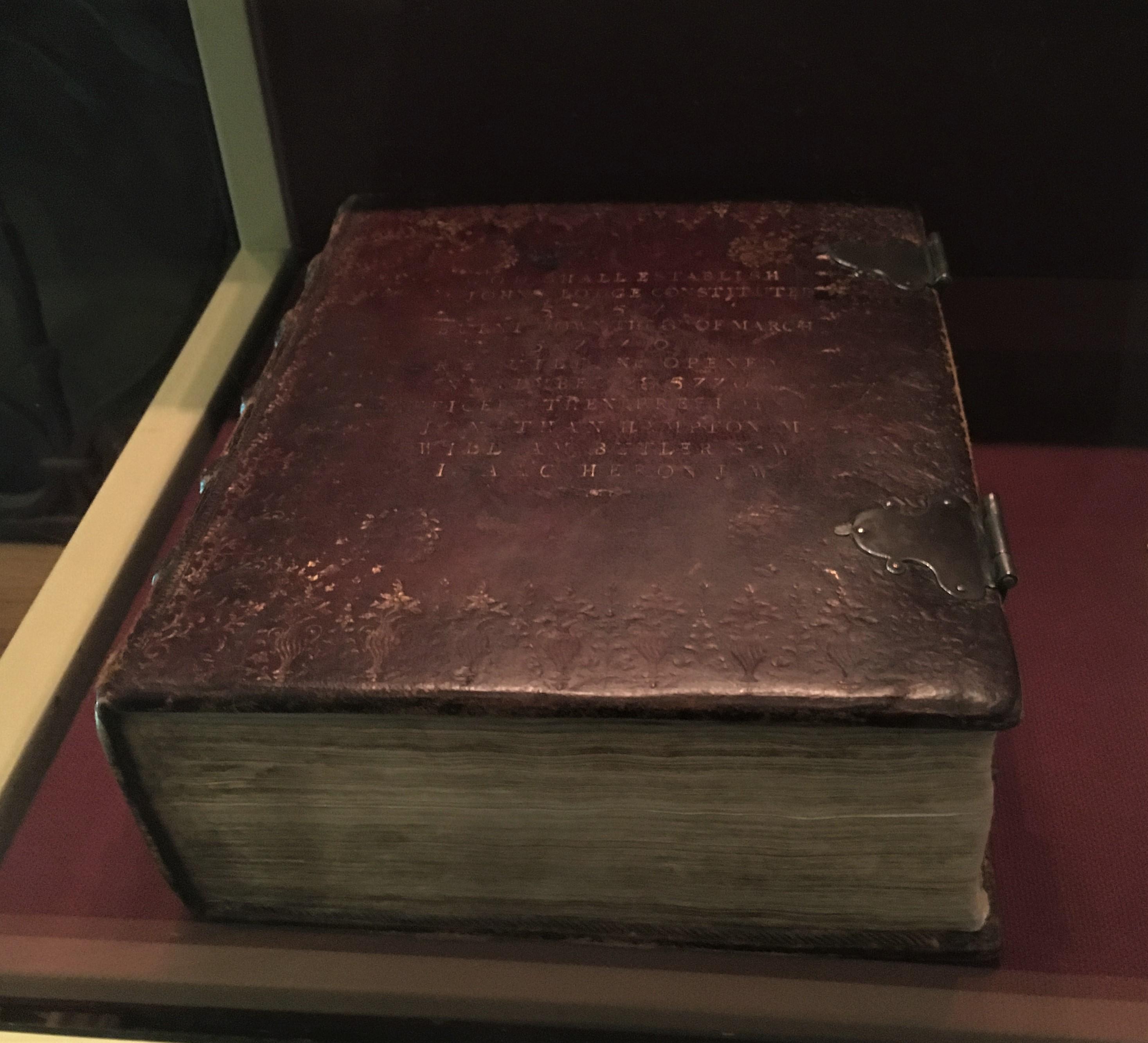 Bible used by George Washington at his inauguration as first president of the United States in 1789.